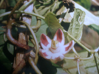 Holostemma creeper. Family Asclepiadaceae. Endangered Indian plant. Photographed in Khopoli, Mahrashtra, India by NT Kalbag in 1986. Self-work. Nandan Kalbag 15:37, 21 October 2006 (UTC)